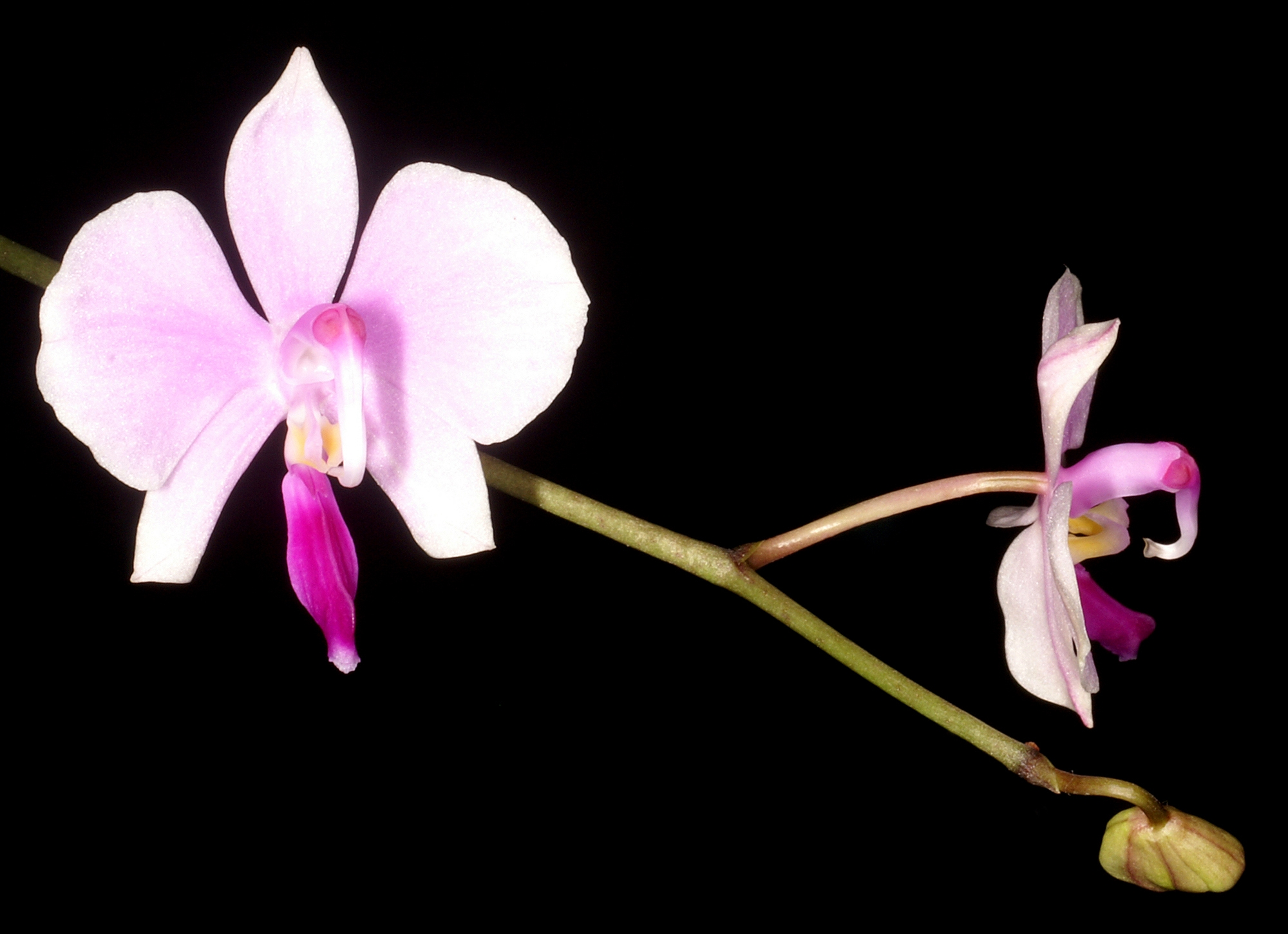 Phalaenopsis lowii